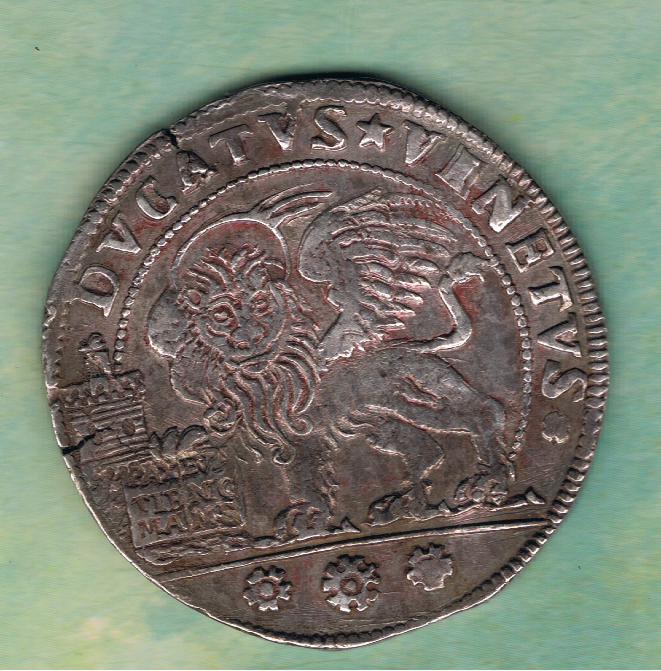 Scan (by me, R. de Salis, Rodolph (talk) 01:06, 26 February 2015 (UTC)) of a Ducatus Venetus, Venetian ducat, of the reign of Ludovicus Manin Dux (San Marco side).